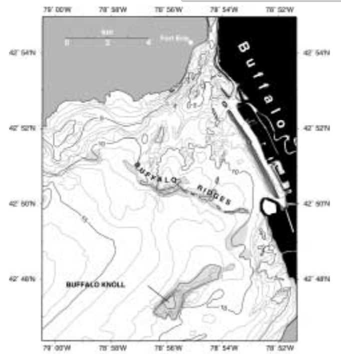 Buffalo Ridges and Buffalo Knoll are shallow shoals off the shore of Buffalo NY that may be signs of an earlier shoreline.